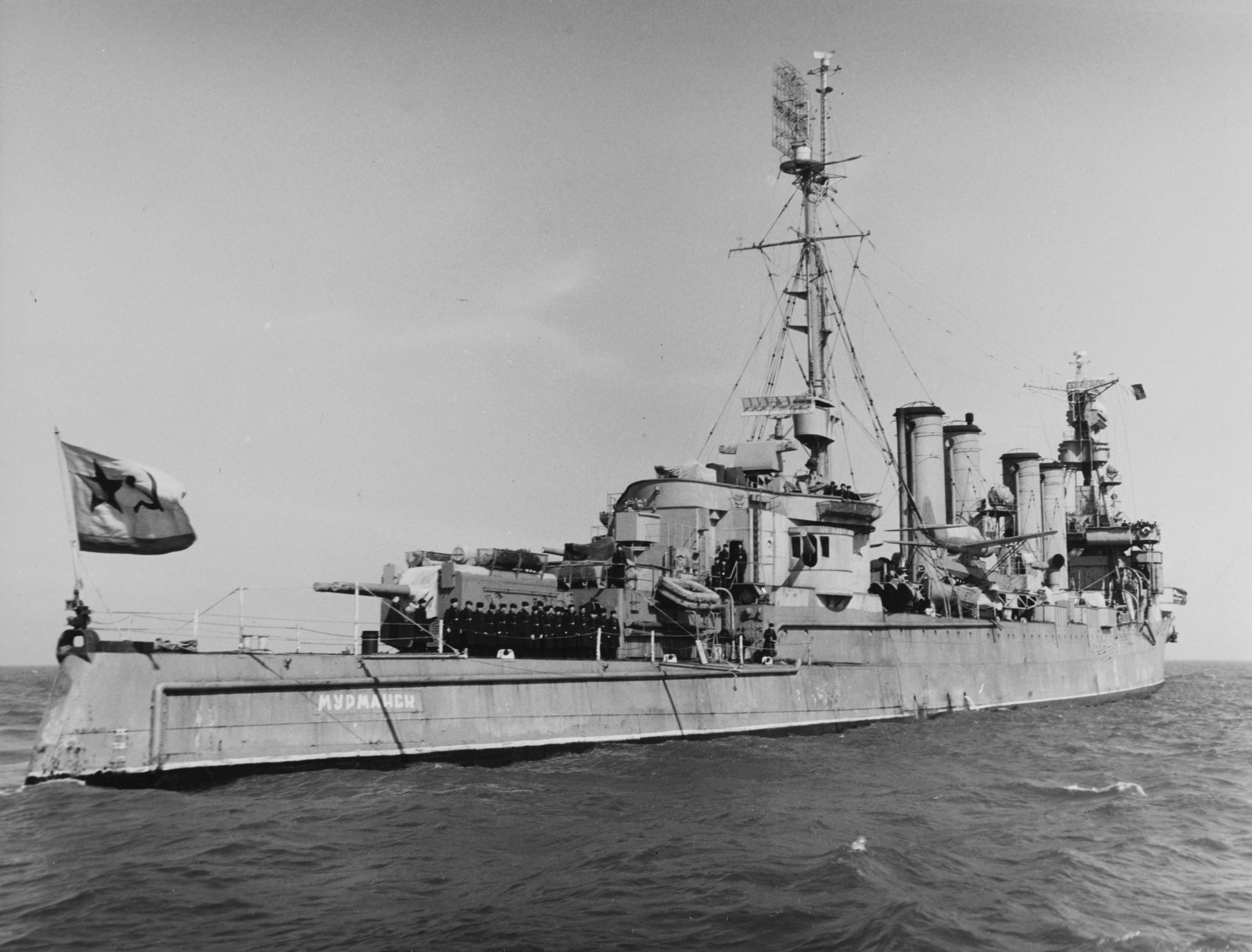 The Soviet light cruiser Murmansk (formerly USS Milwaukee (CL-5)) off Lewes, Delaware (USA), on 8 March 1949, just prior to being turned to U.S. Navy control. Note the Soviet Navy flag on the stern, the hull painted with Soviet Navy fashion, with a white stripe at waterline, and the Vought OS2U Kingfisher plane on the catapult.